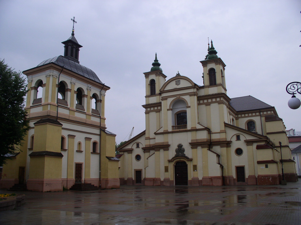 Church of Virgin Mary. Ivano-Frankivsk, Ukraine.